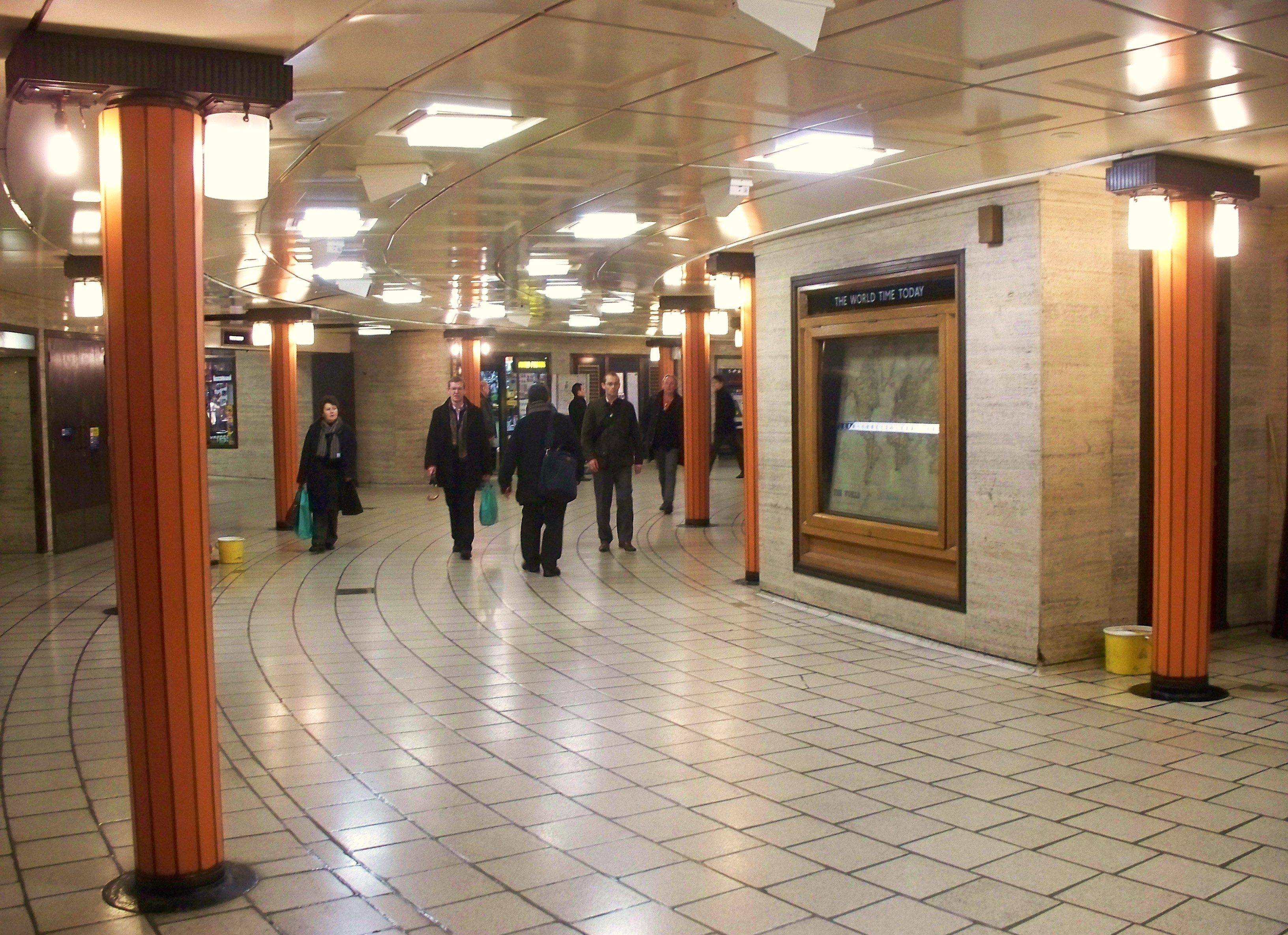 Ticket hall, Piccadilly Circus tube station, London. Photograph taken in a public location in the UK of a structure on permanent public display, and exempt from copyright under Section 62 of the Copyright Designs & Patents Act 1988 ("it is not an infringement of copyright to film, photograph, broadcast or make a graphic image of a building, sculpture, models for buildings or work of artistic craftsmanship if that work is permanently situated in a public place or in premises open to the public")